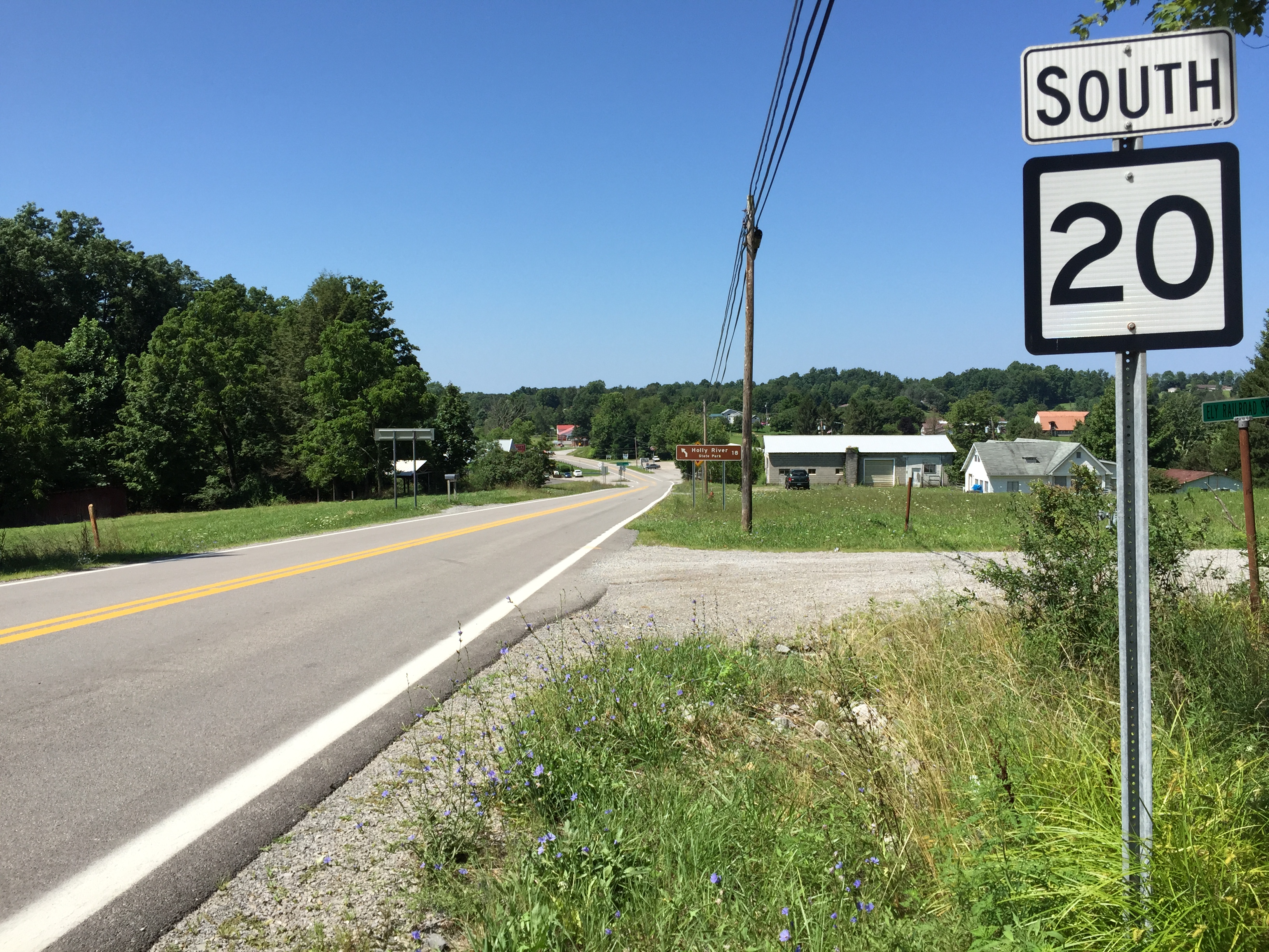 View south along West Virginia State Route 20 (Ireland-Rock Cave Road) at Fish Hawk Drive in Rock Cave, Upshur County, West Virginia